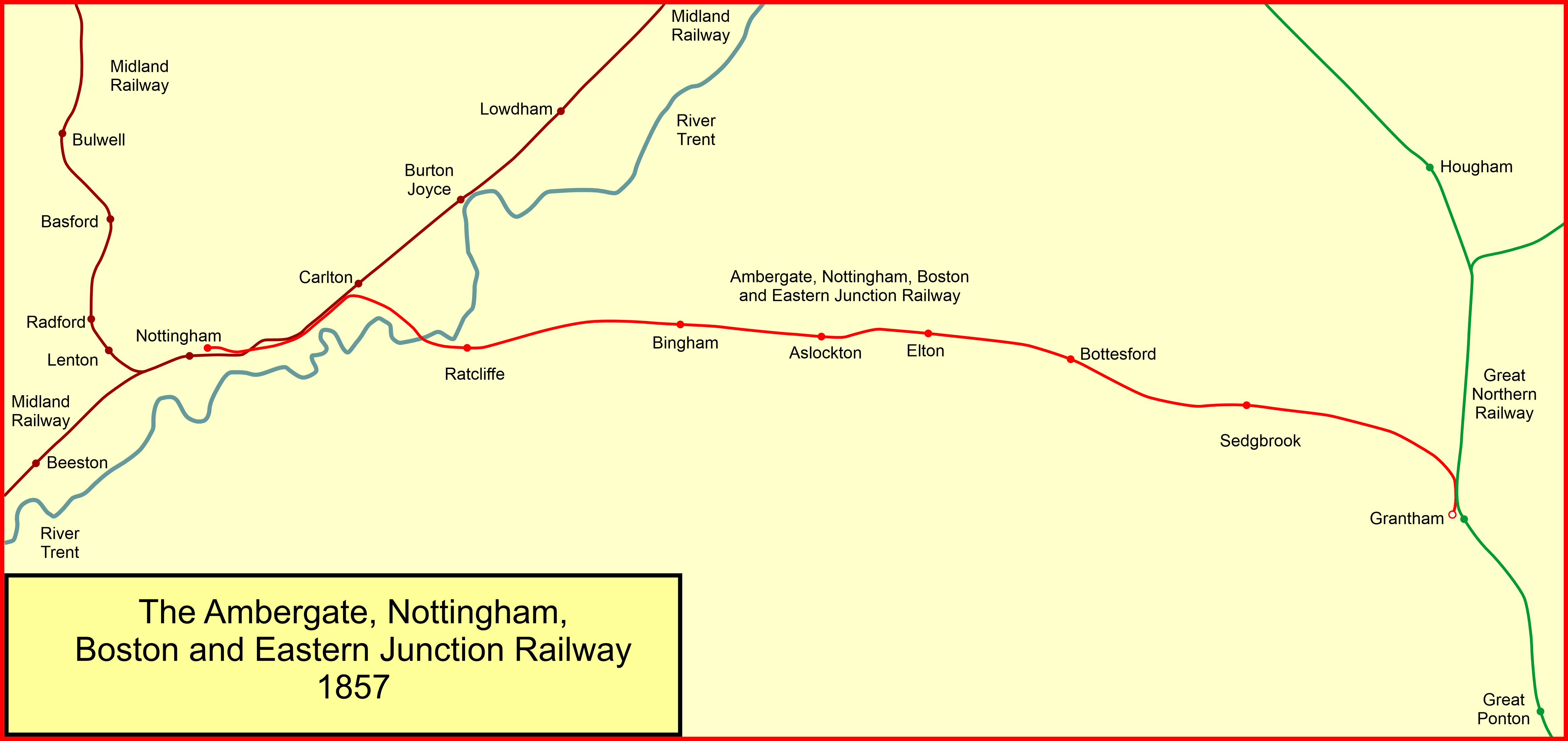 System map of the Nottingham and Grantham railway line in England in 1857, formally known as the Ambergate, Nottingham, Boston and Eastern Junction Railway